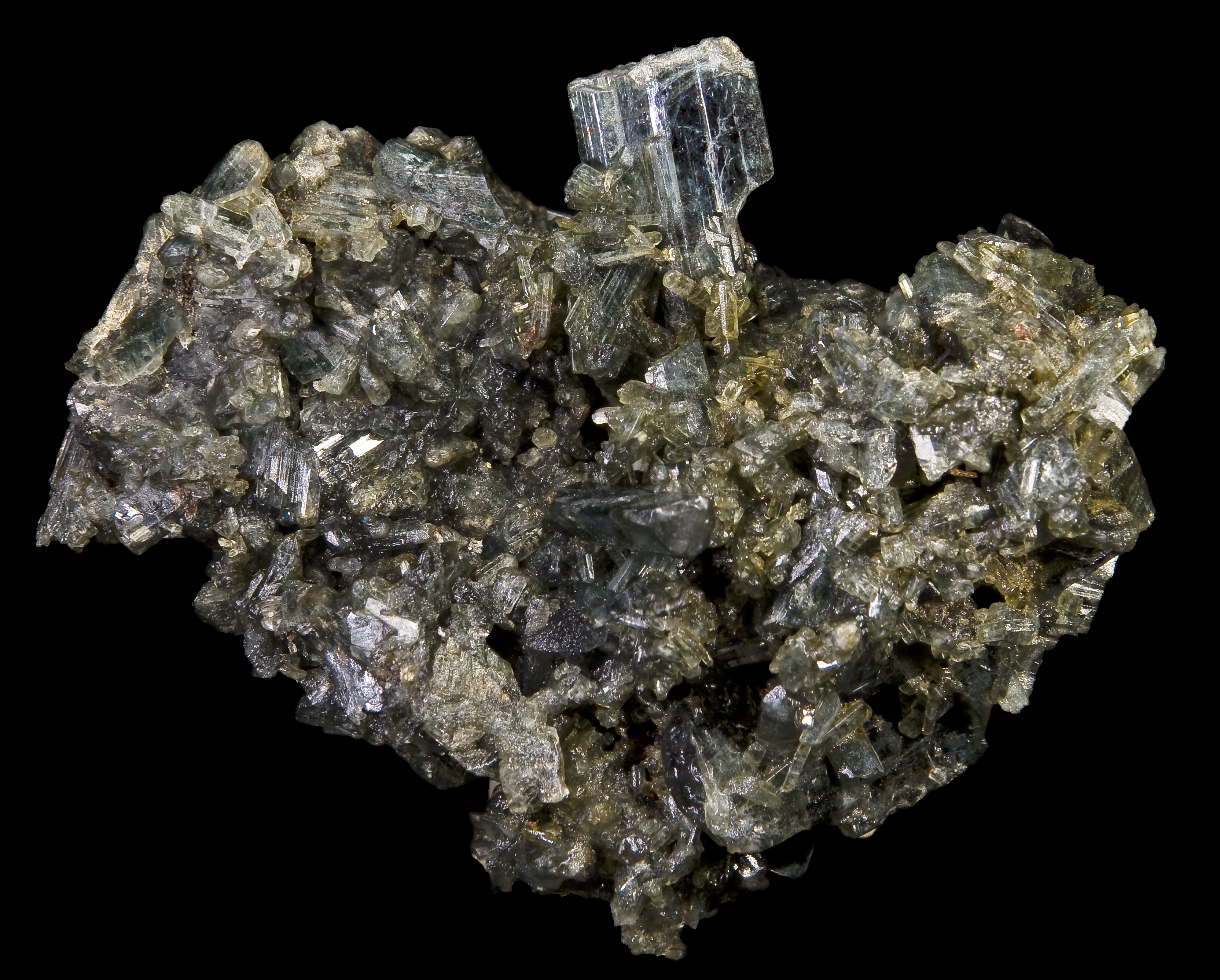 Tremolite Locality : Wilberforce, Monmouth Township, Haliburton Co., Ontario, Canada Size : 6x5cm